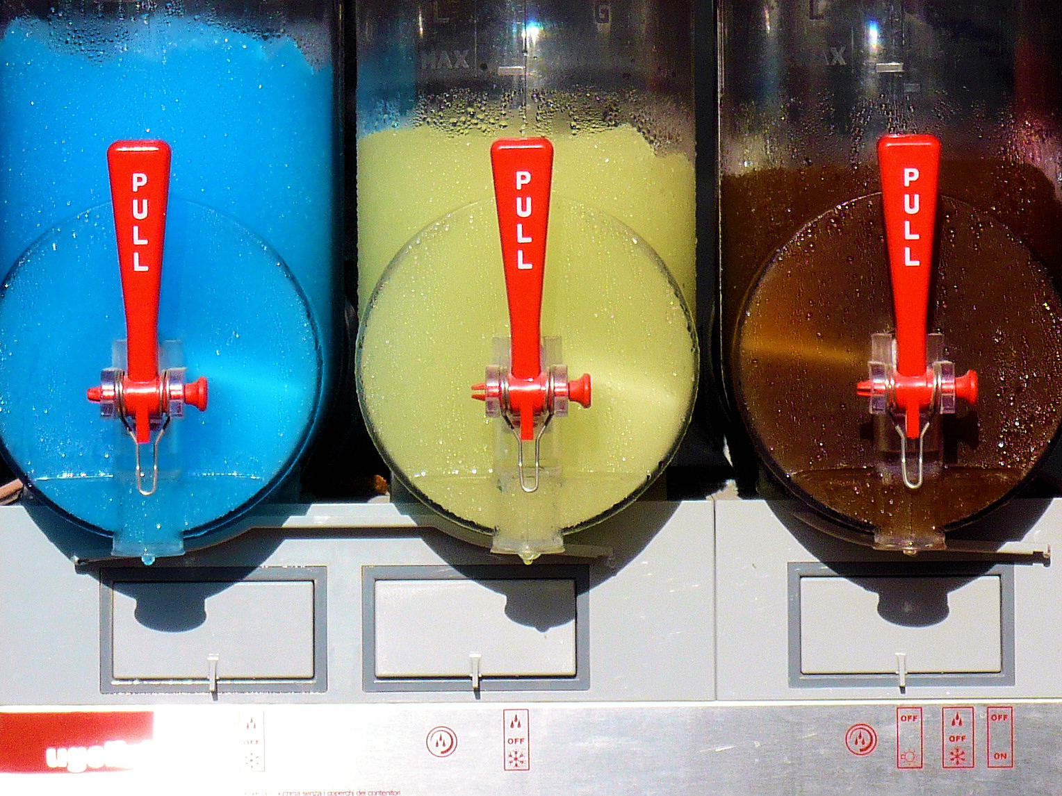 Granita dispensers.